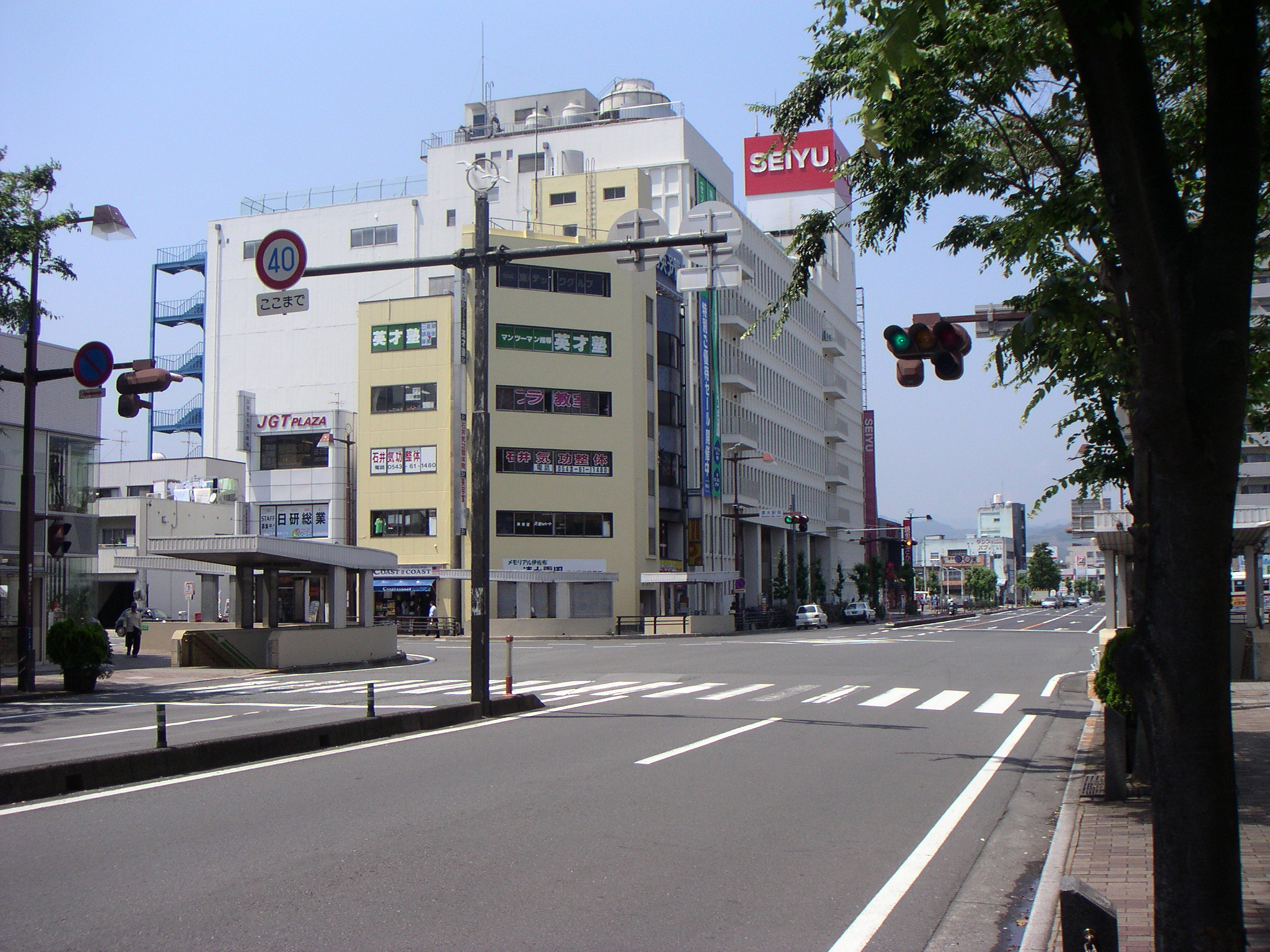 Route 149 (Japan)